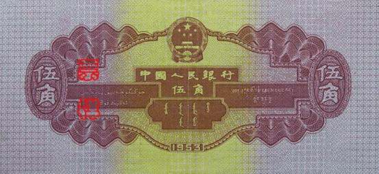 Back of second series 5 jiao renminbi